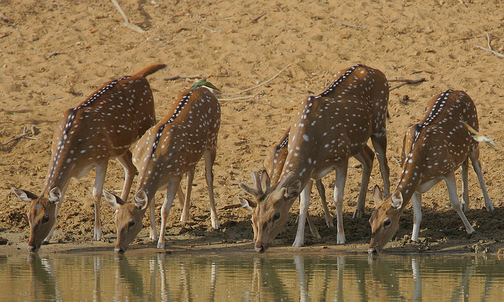 Also known as Axis Deer. This is the principal prey of leopard.